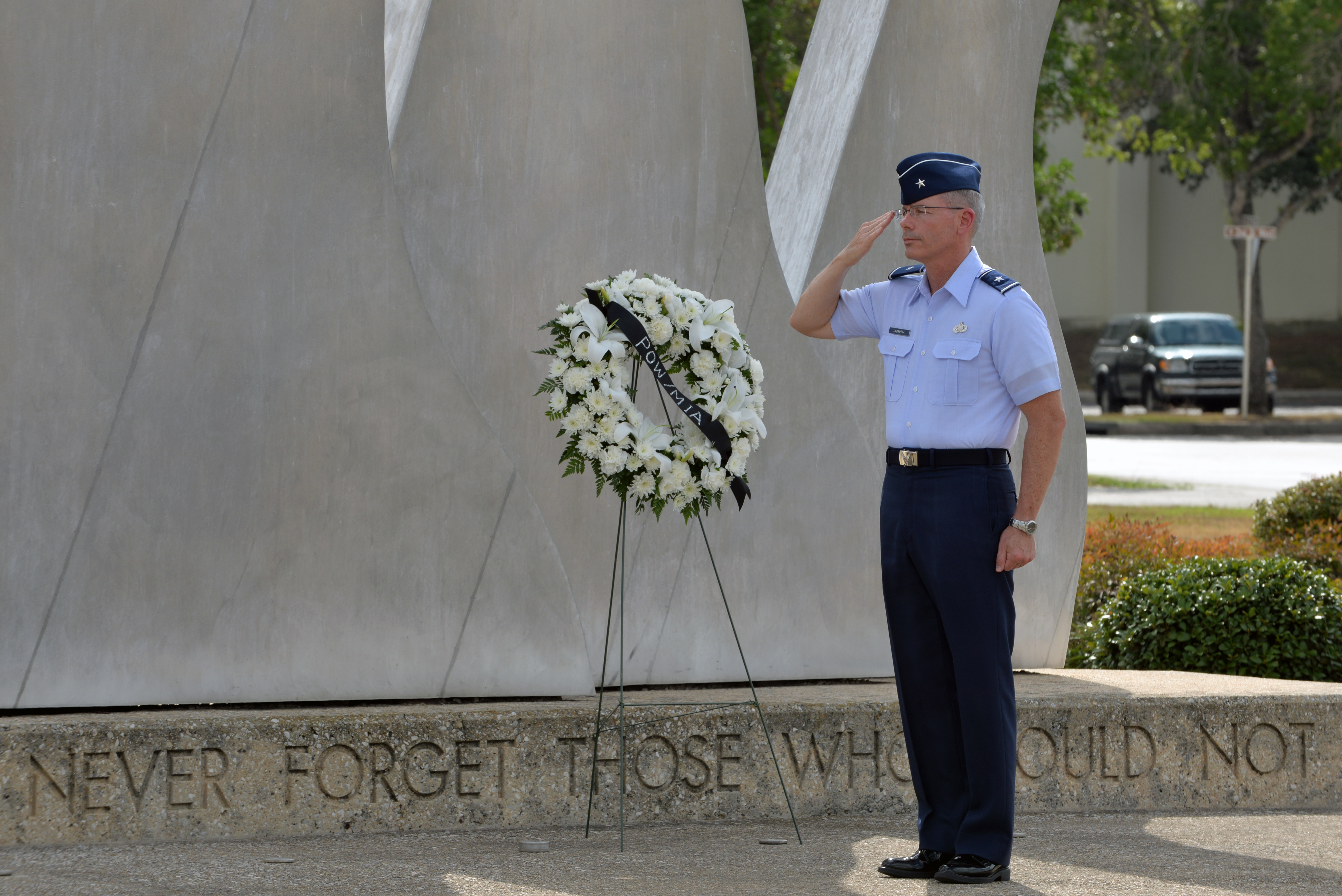 Each year an event to honor those prisoners of war and those still missing in action is held at Joint Base San Antonio-Randolph. The event was hosted by Brig. Gen. Bob LaBrutta, 502nd Air Base Wing and Joint Base San Antonio commander. LaBrutta spoke about the importance of remembering those who have not yet returned home from America’s armed conflicts and laid the wreath at the Missing Man Monument before retreat. The event included a wreath laying, 21-gun salute, retreat and a motorcycle procession. (U.S. Air Force photo by Desiree N. Palacios) Unit: 502nd Air Base Wing